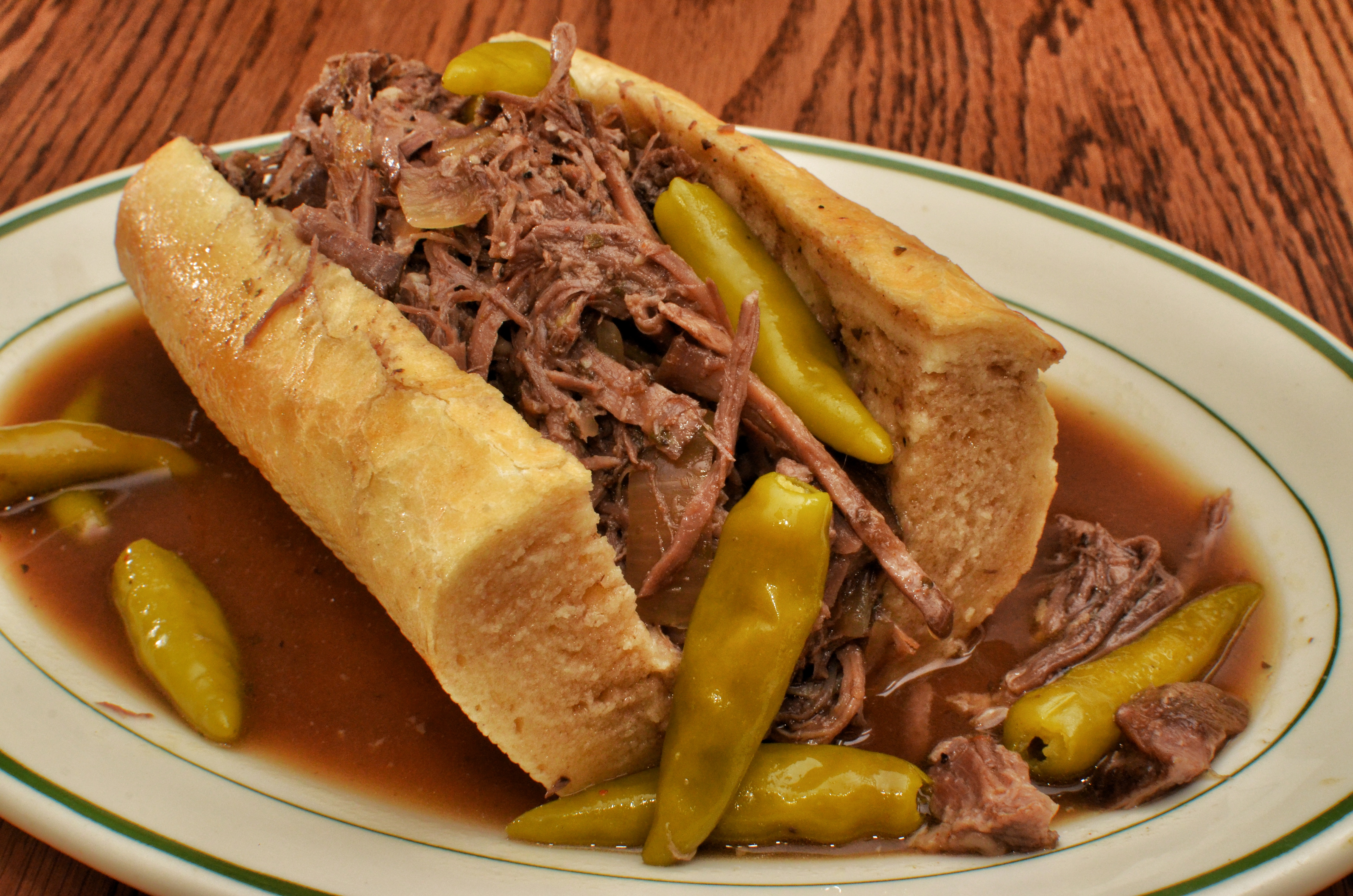 Mmm... Italian Beef